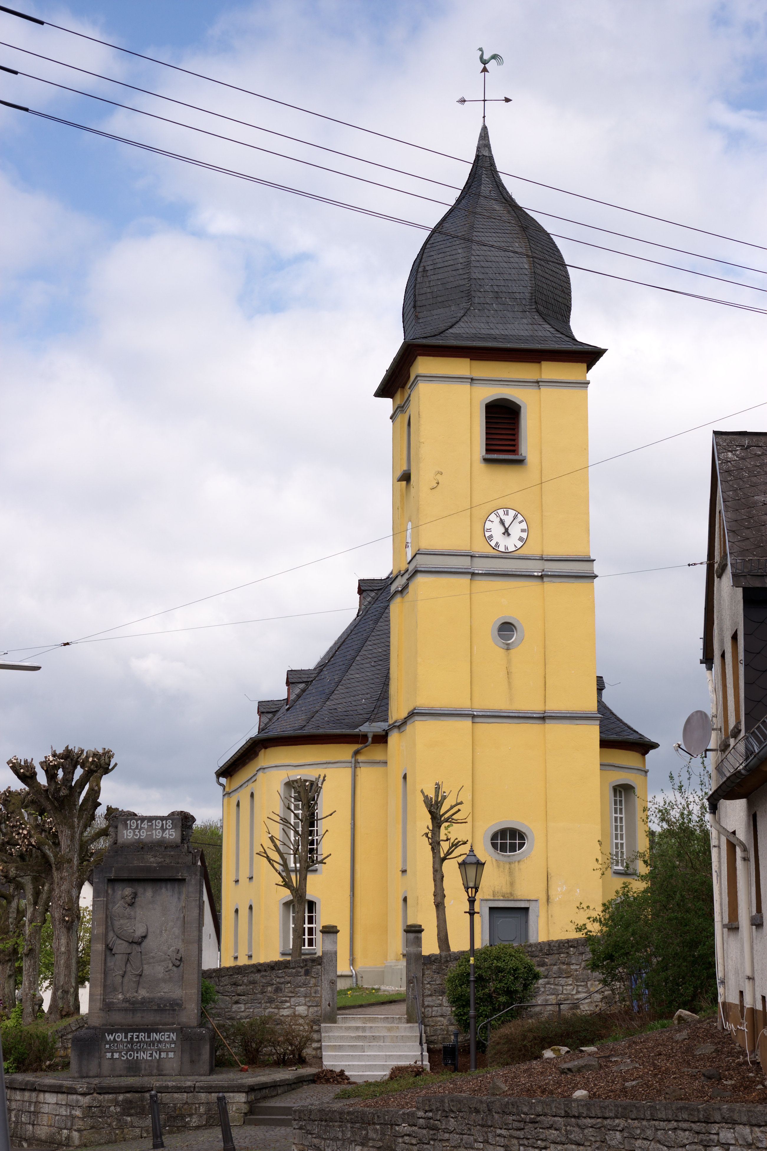 Wölferlingen, Westerwald, Germany. Protestant church, errected 1751